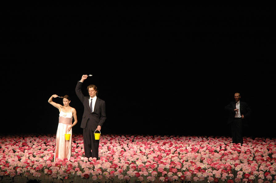 Cravos, by choreographer Pina Bausch.